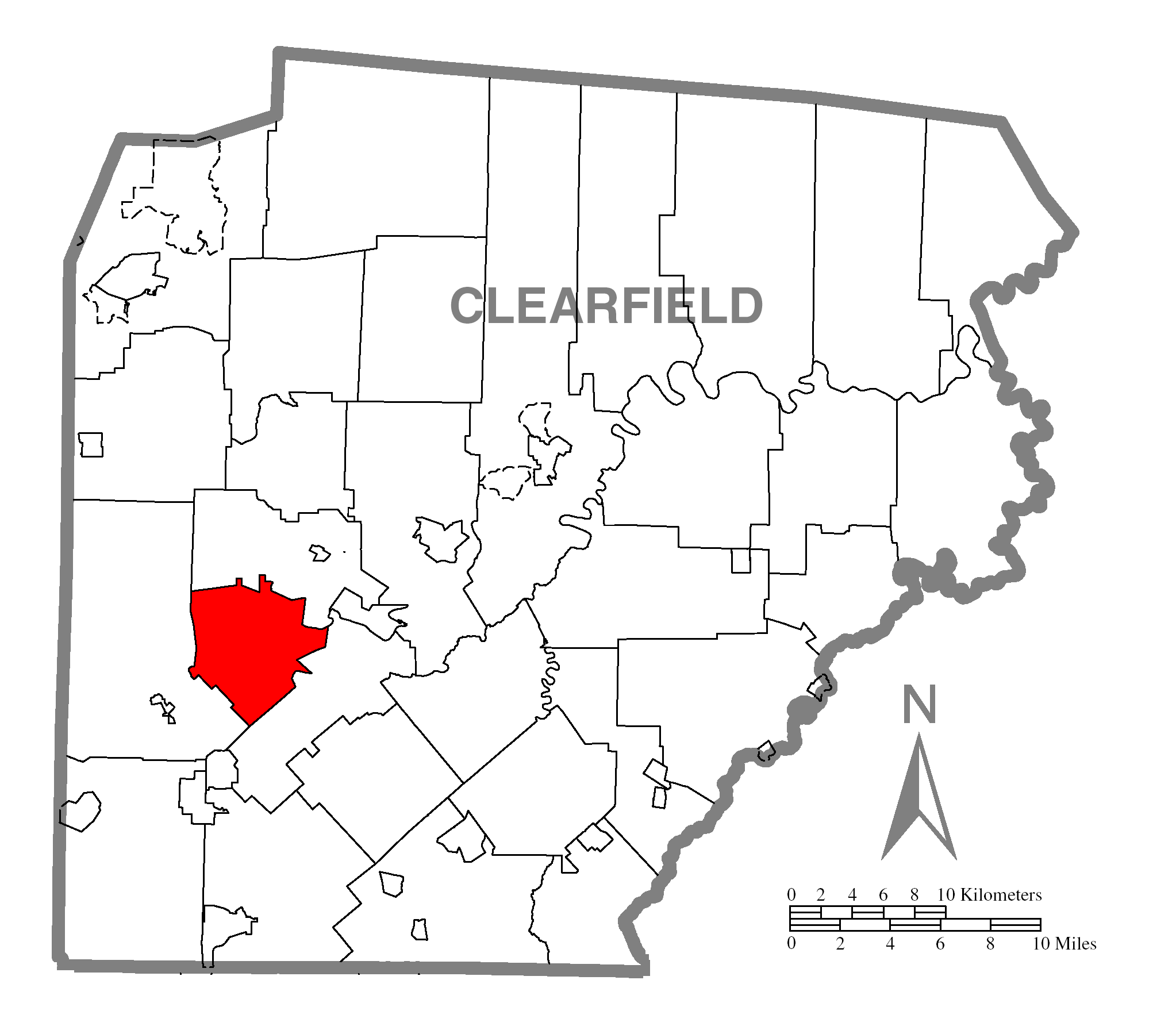 A map of Clearfield County showing Greenwood Township, Pennsylvania (alternate) highlighted on the map.